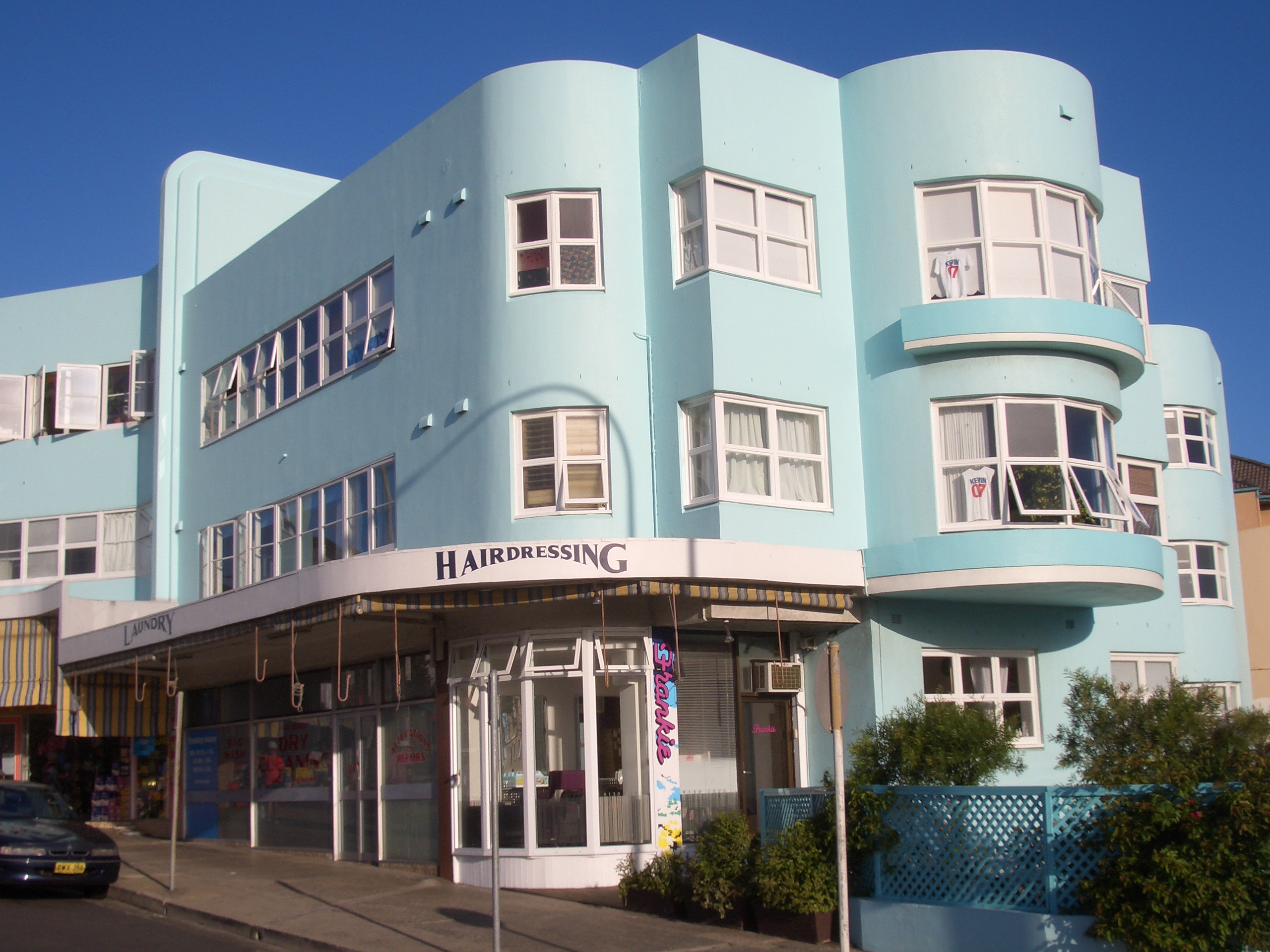 North Bondi apartments and shops